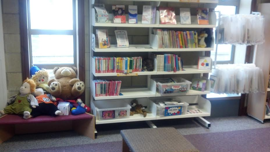 Children's bookshelf and play accessories, Orkney Library, Kirkwall branch